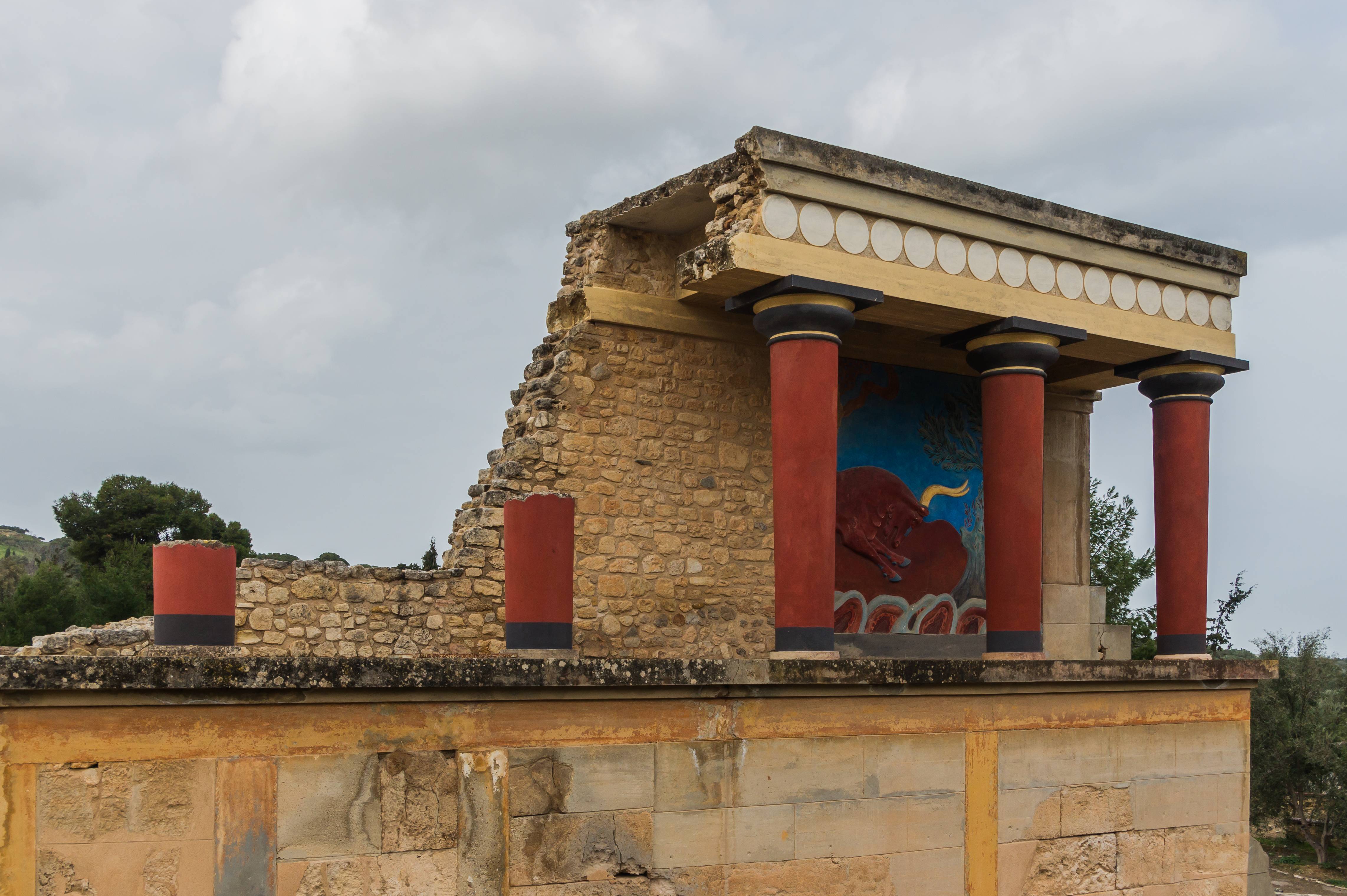 North entrance with a reproduction of the "Bull Fresco", Knossos palace, Crete, Greece.